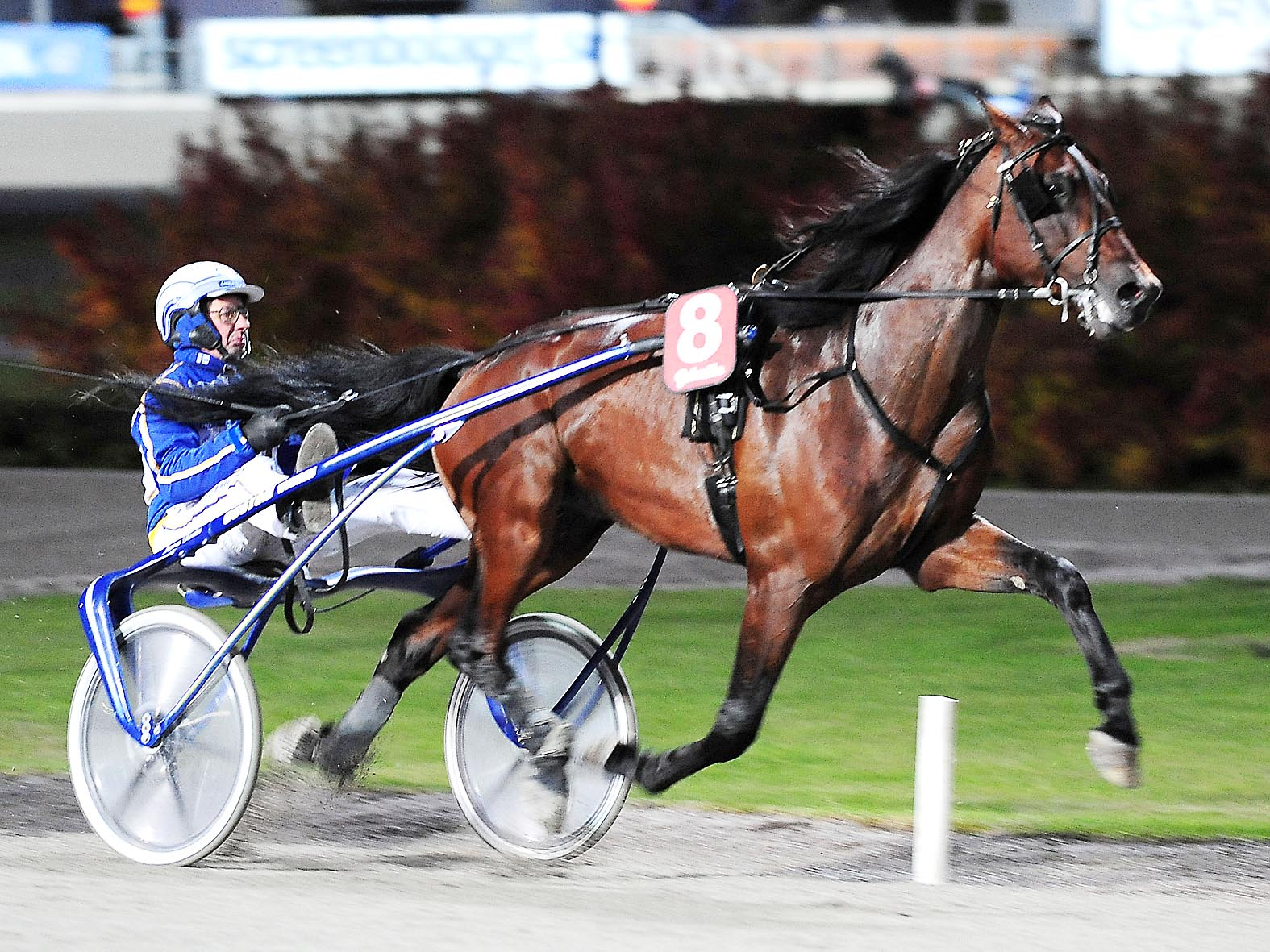 foto : ck : solvalla 091028 foto: Claes Kärrstrand Trotting horse Red Hot Dynamite and driver Jorma Kontio. At Solvalla, Sweden 2009.